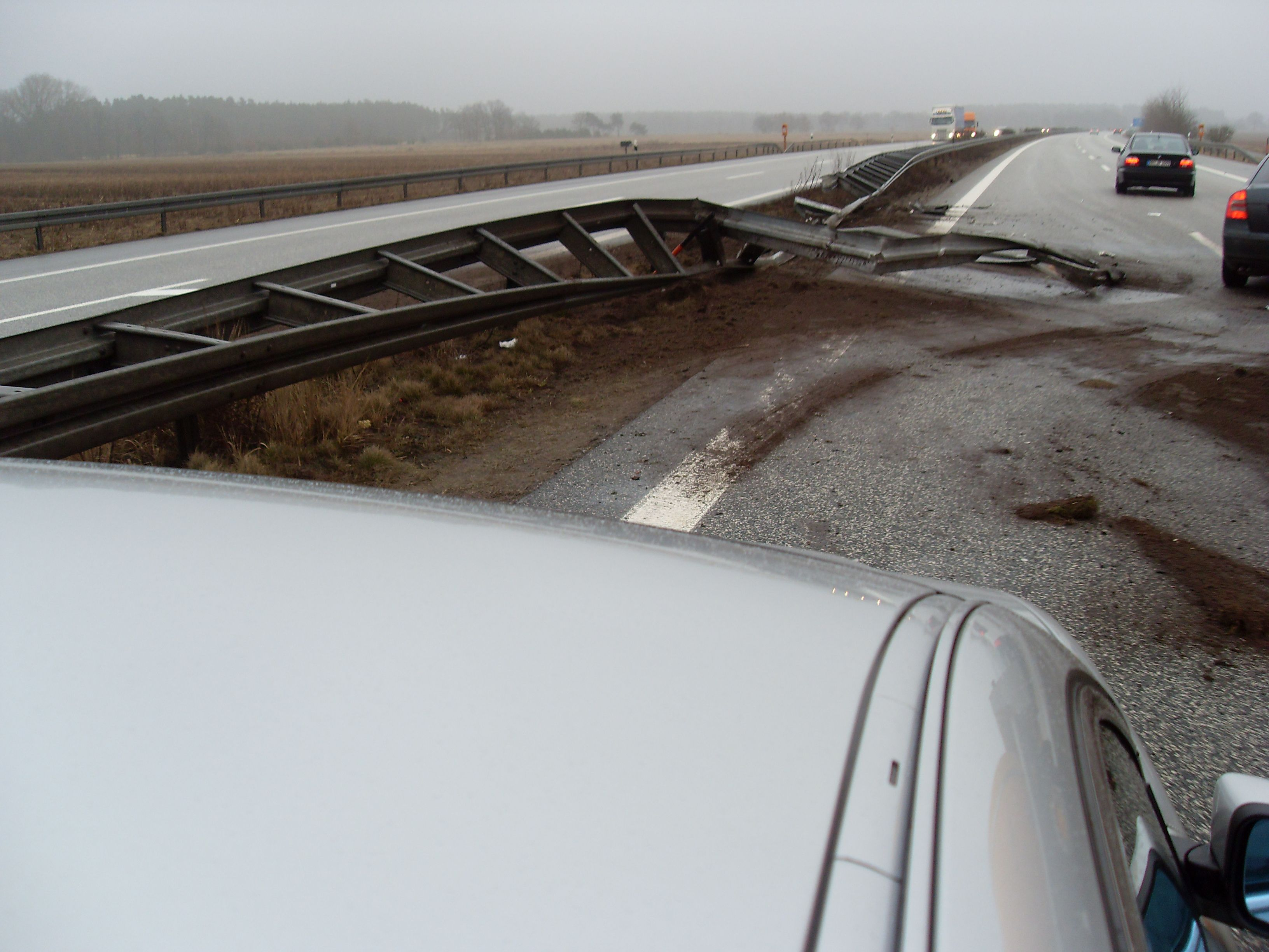 A truck smashed through the centre guardrail on the A24 motorway in Germany.